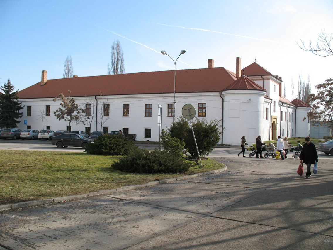 Photo of the castle (archives) in Šaľa